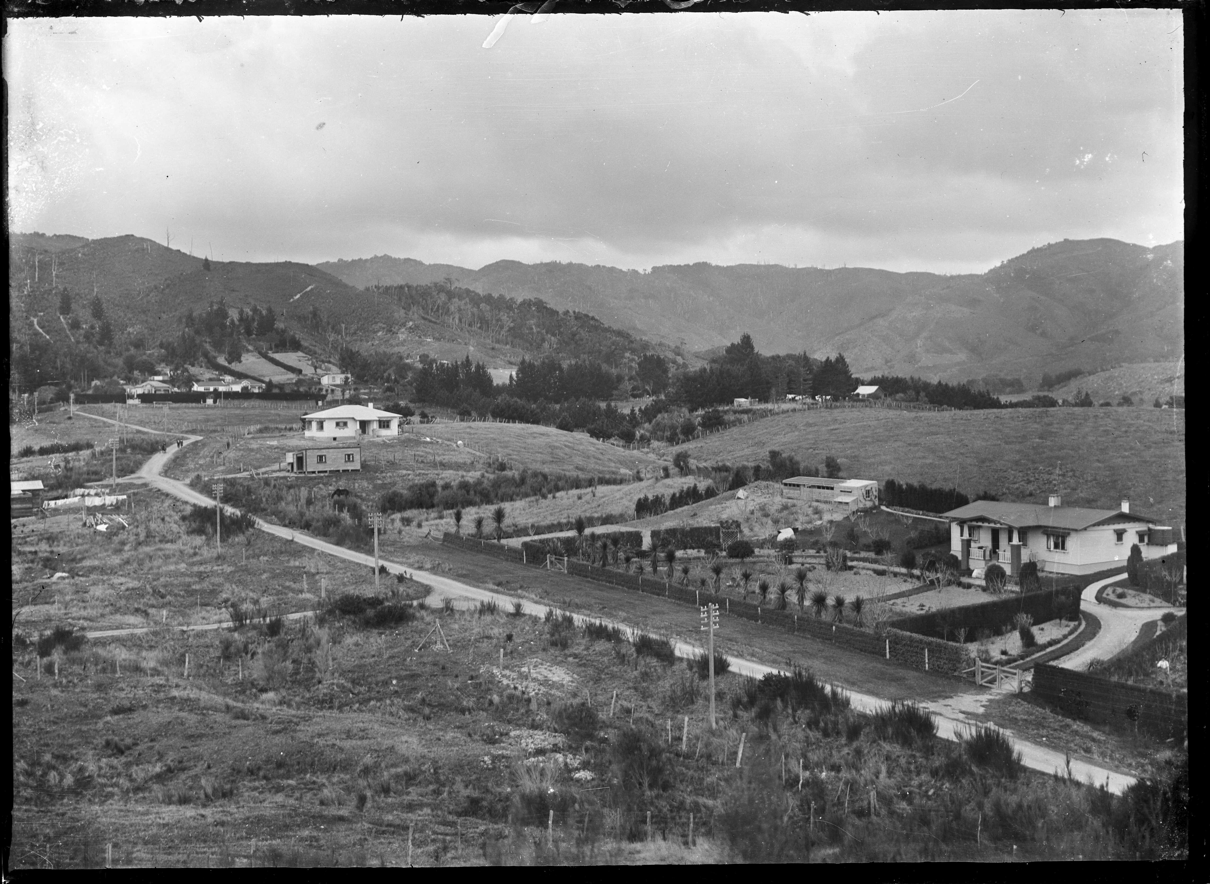 Gloucester Street, Silverstream, photographed in 1922 by Albert Percy Godber.